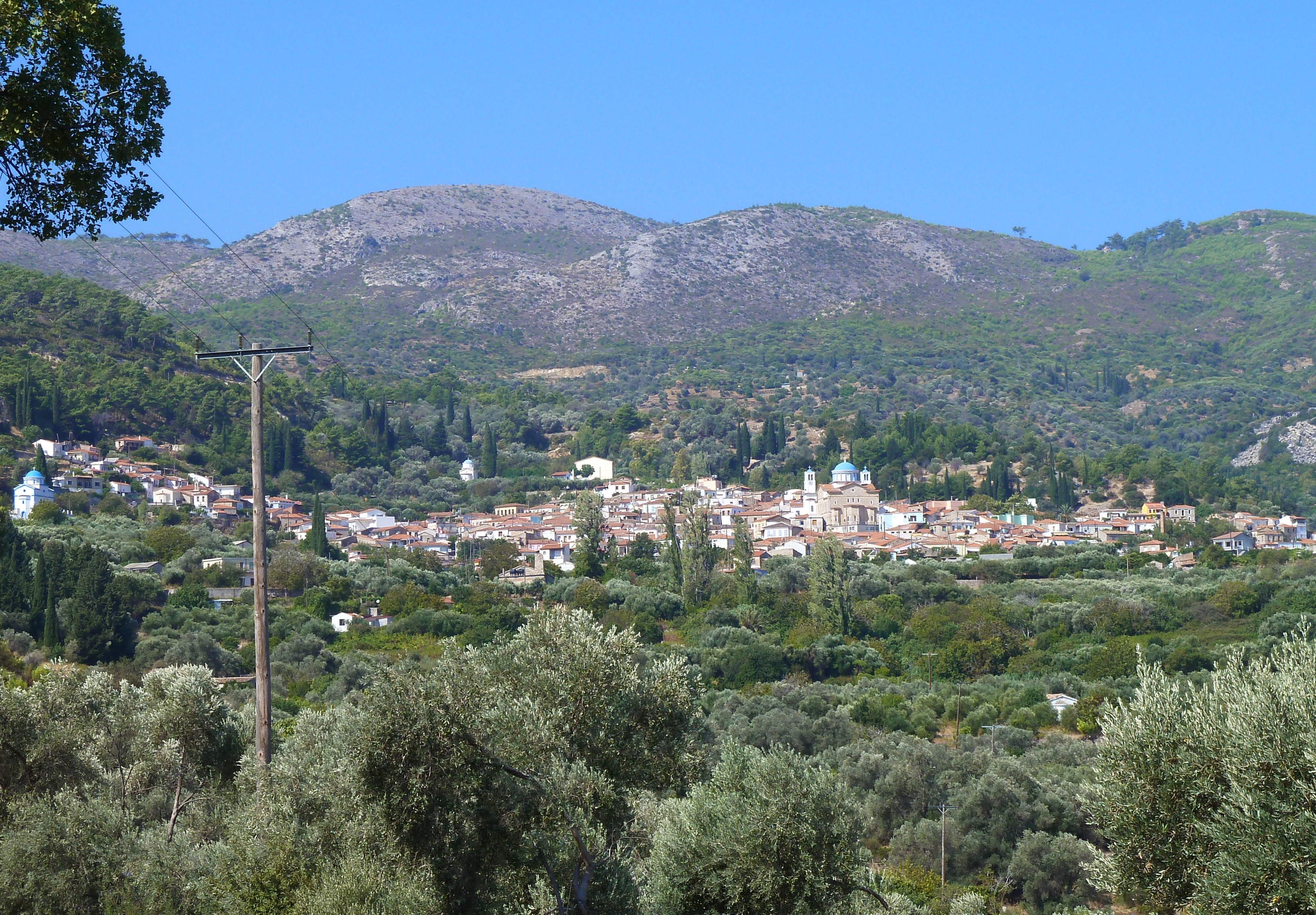 Pangondas village on the Greek island of Samos